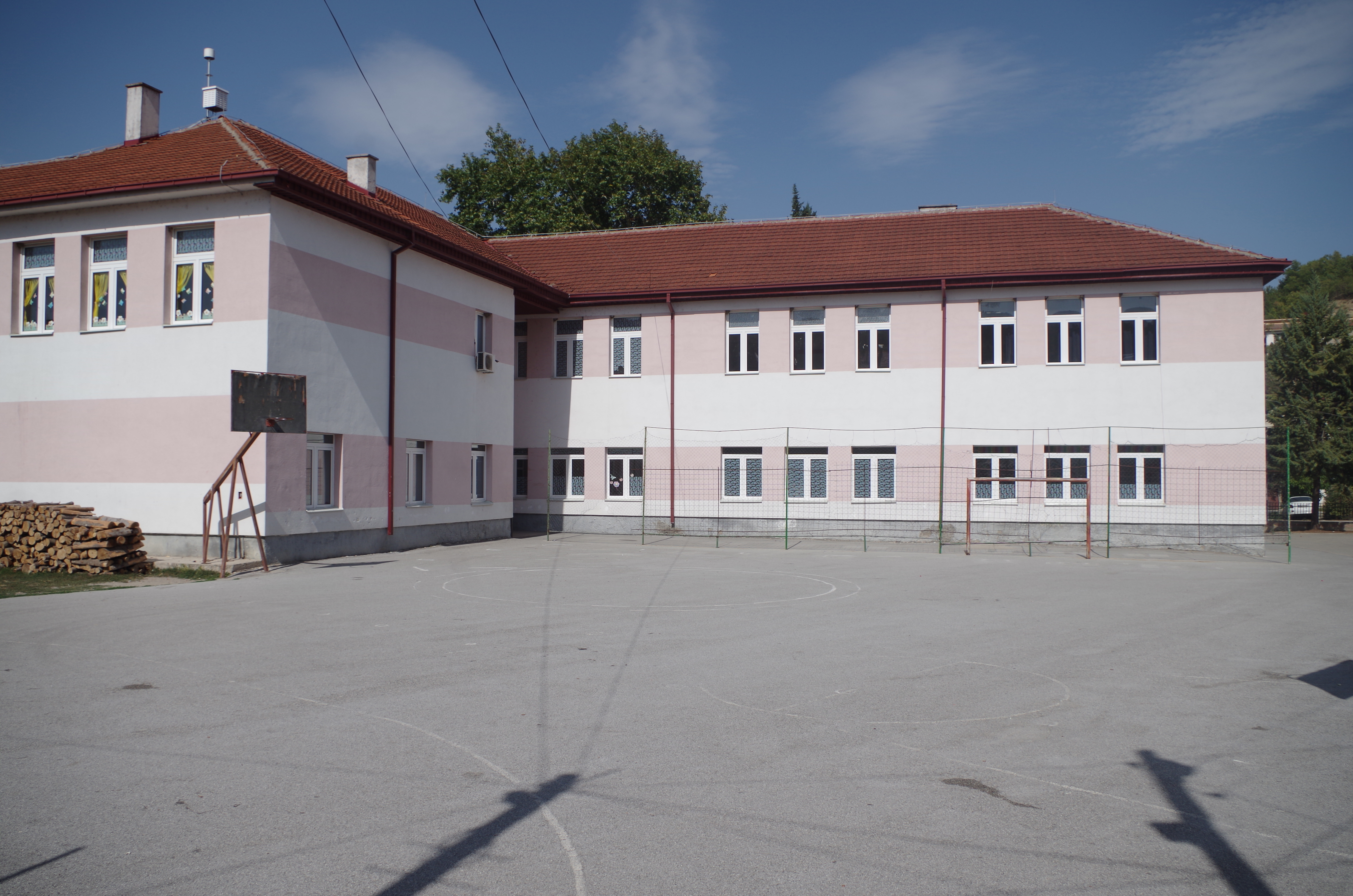 Dimkata Angelov - Gaberot primary school in the village of Vataša